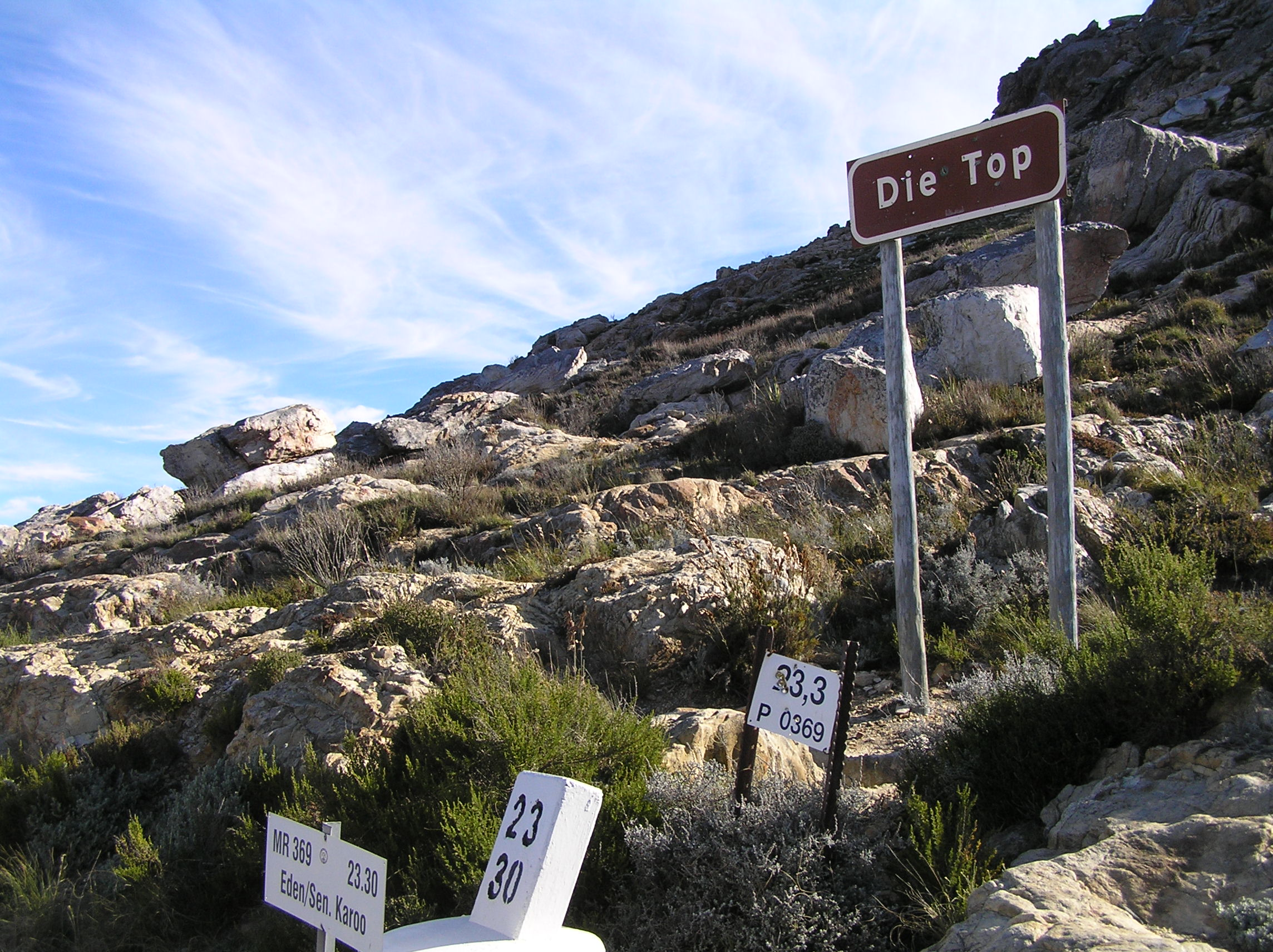 Sign at the top of the Swartberg Pass - South Africa Lat 33:31:18S Long 22:03:04E